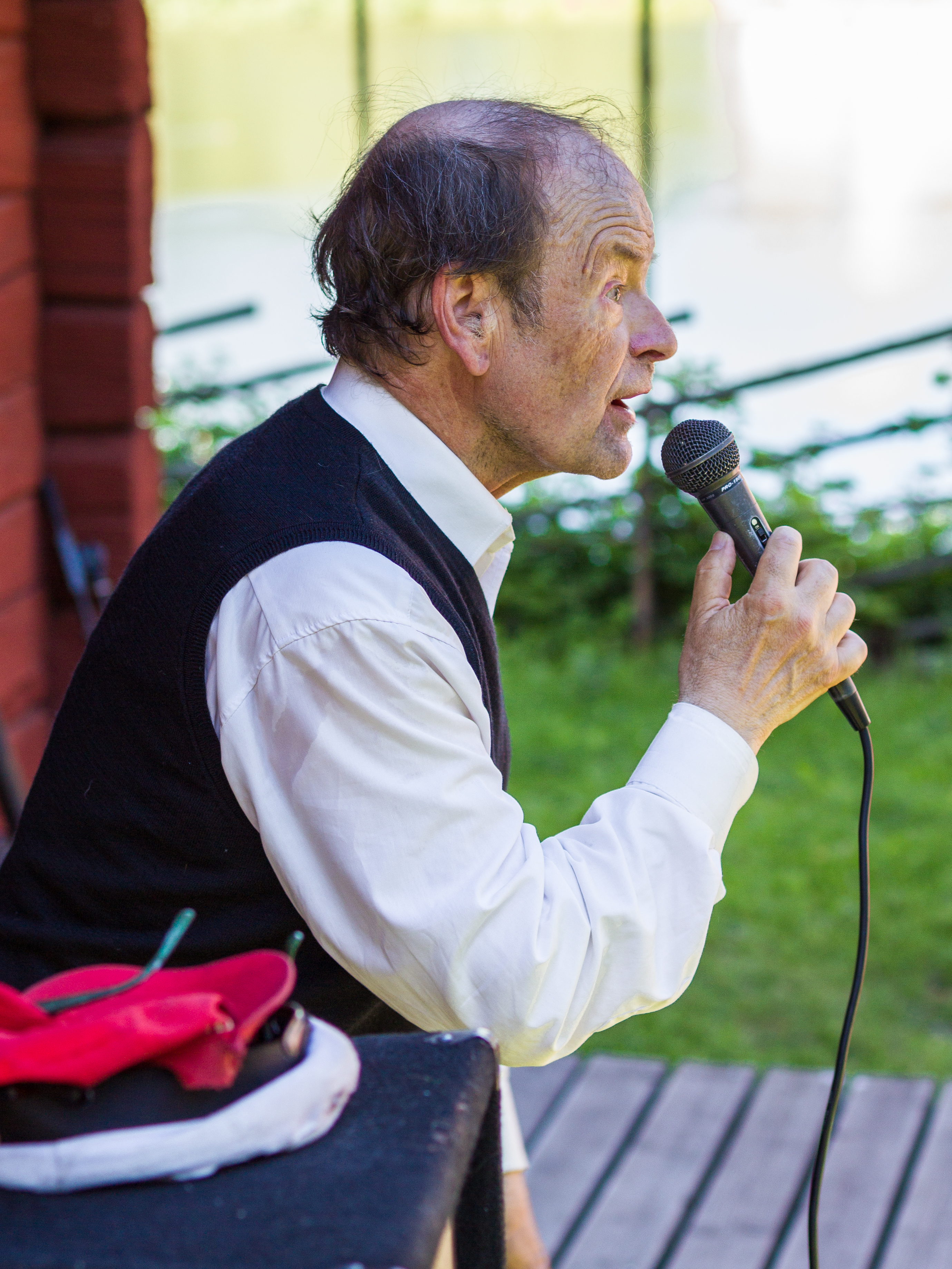 Swedish sports commentator, comedian and imitator Mats Strandberg at Hedemora gammelgård.